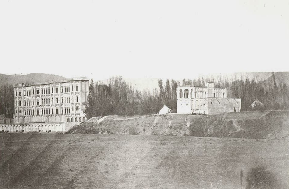 İmadîye (Emadiye) Palace in Dehpan (Dêpen) in Kermanshah (Kirmaşan) suburb, wich built by Imam-Qoli-Mirza Emad-o-Dowle-ye Qajar, and destroyed in Pahlavi dynasty perdiod. Kurdî: کووشک عمادییه‌ له‌ دێپه‌ن کرماشان ک له‌ سه‌رده‌م فه‌رمانڕه‌وایی عمادوده‌وله‌ی ده‌وڵه‌تشاێ قاجار سازه‌ریا و له‌ سه‌رده‌م په‌هله‌وییش ڕماندریا.